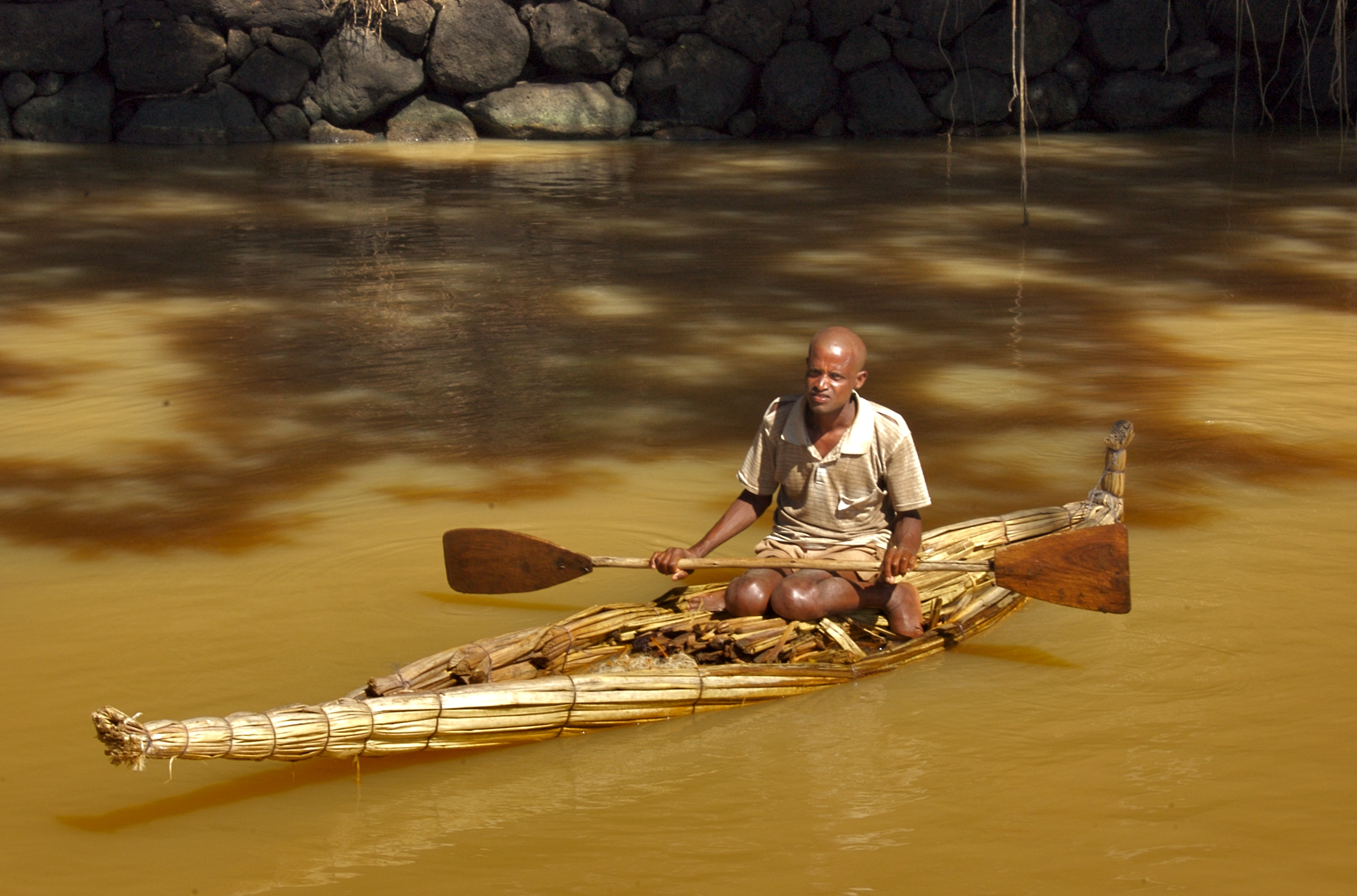 This Lake Tana fisherman is in his tankwa, or papyrus boat. Dek Island, Lake Tana, Ethiopia.